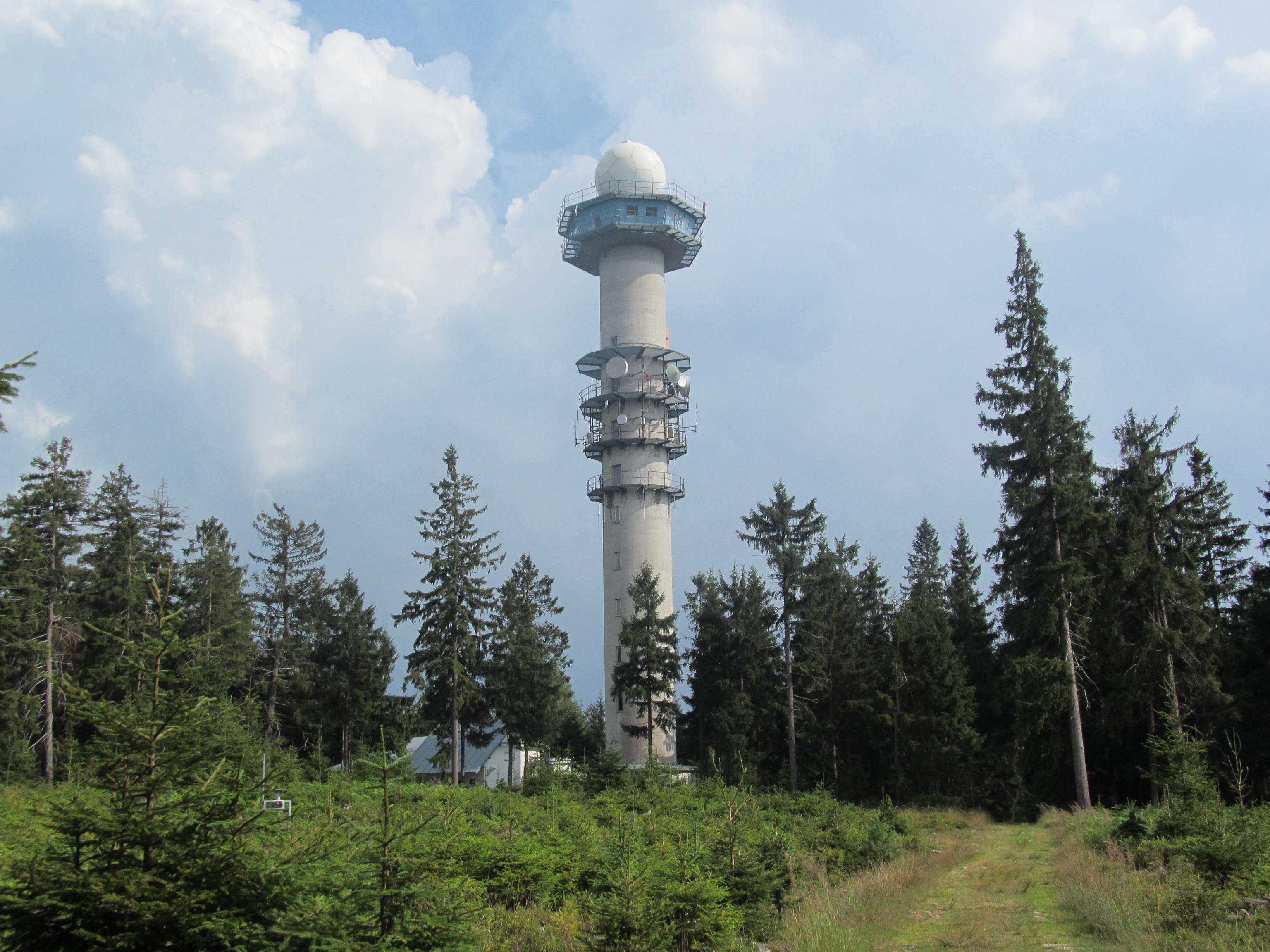 Meteorological radar on the top of Praha hill in Brdy mountins